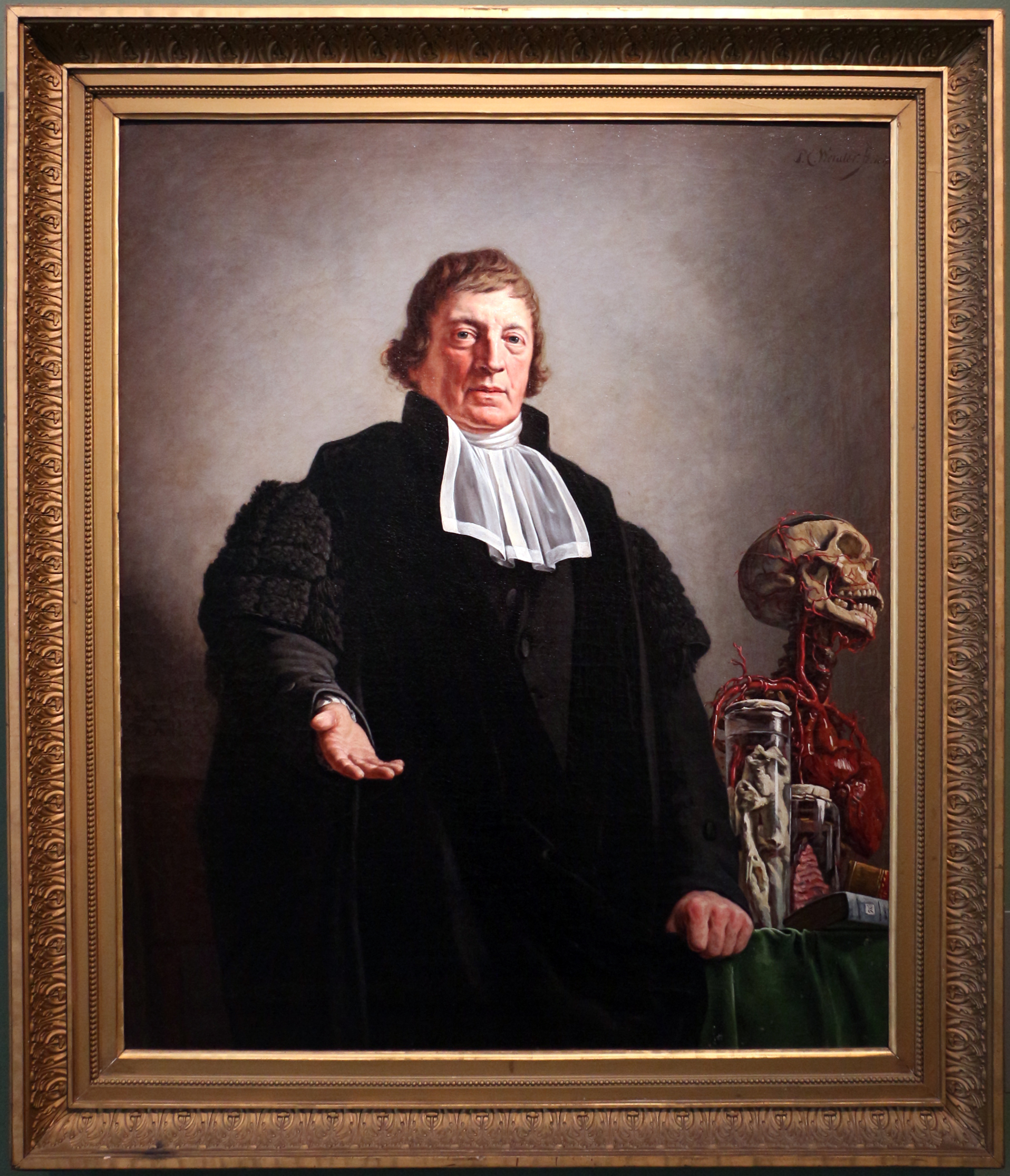 Jan Bleuland. Painting by Pieter Christoffel Wonder, exhibition in Centraal Museum (2016)